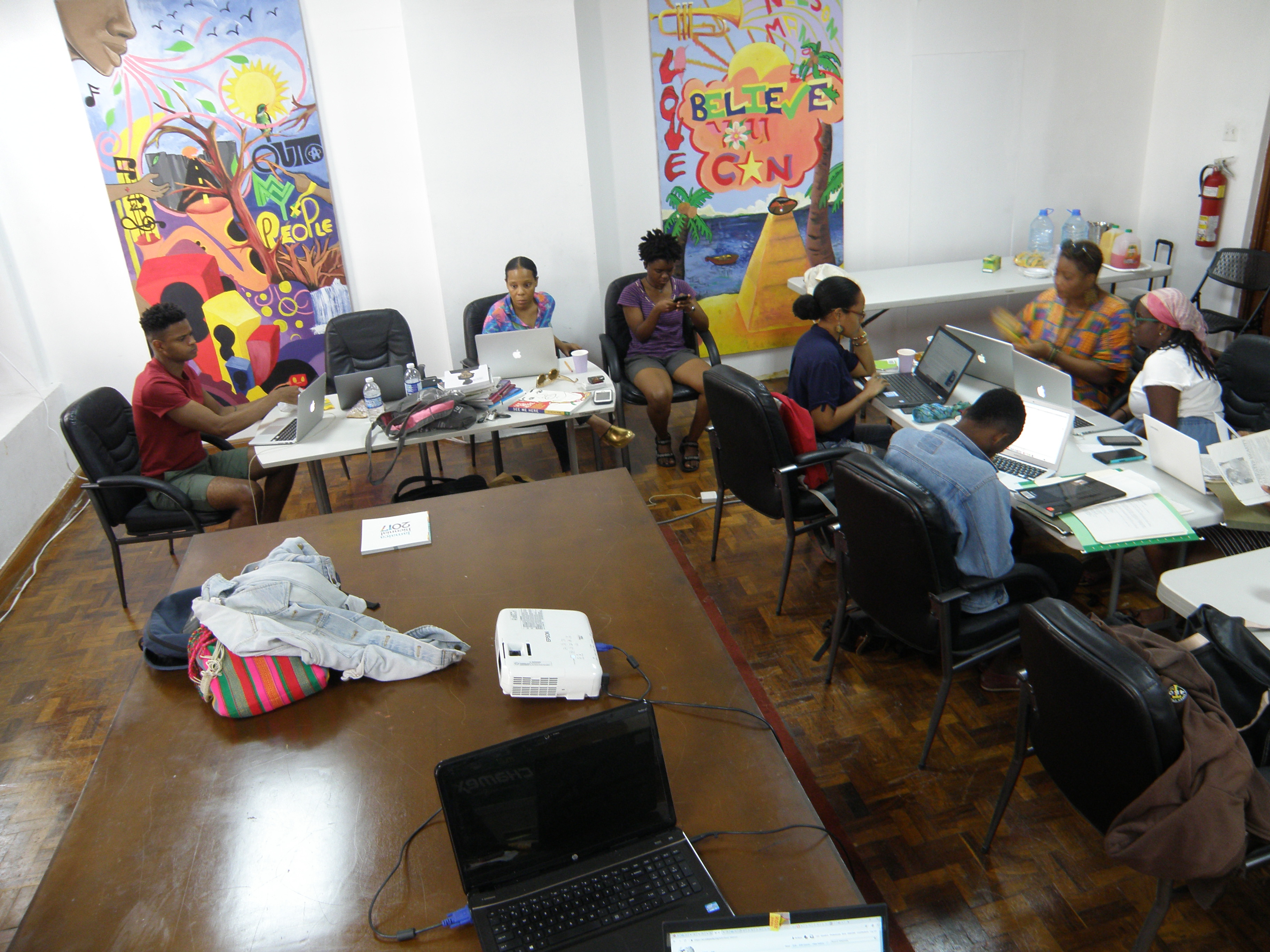 Participants at a Wikipedia Edit-a-thon at the National Gallery of Jamaica led by the Black Lunch Table and Kearra Amaya Gopee.